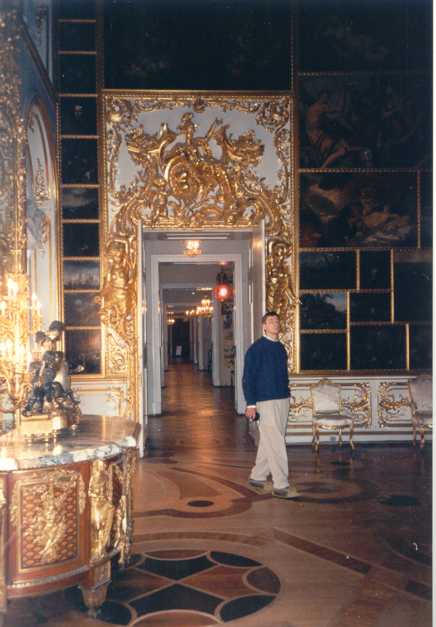 Pushkin (Russia), Picture hall of the Catherine Palace